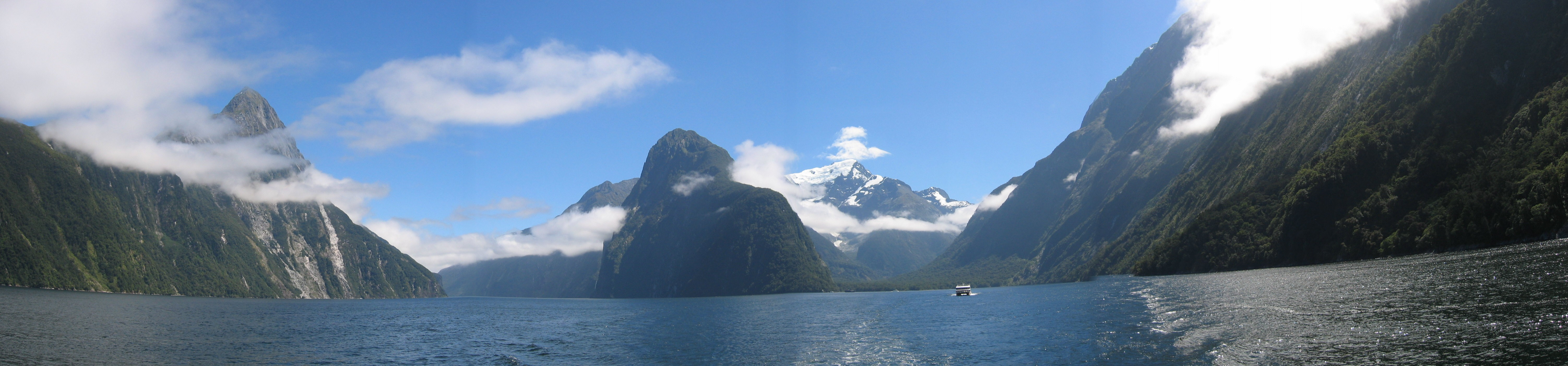 This is a panorama of Milford Sound, in New Zealand.